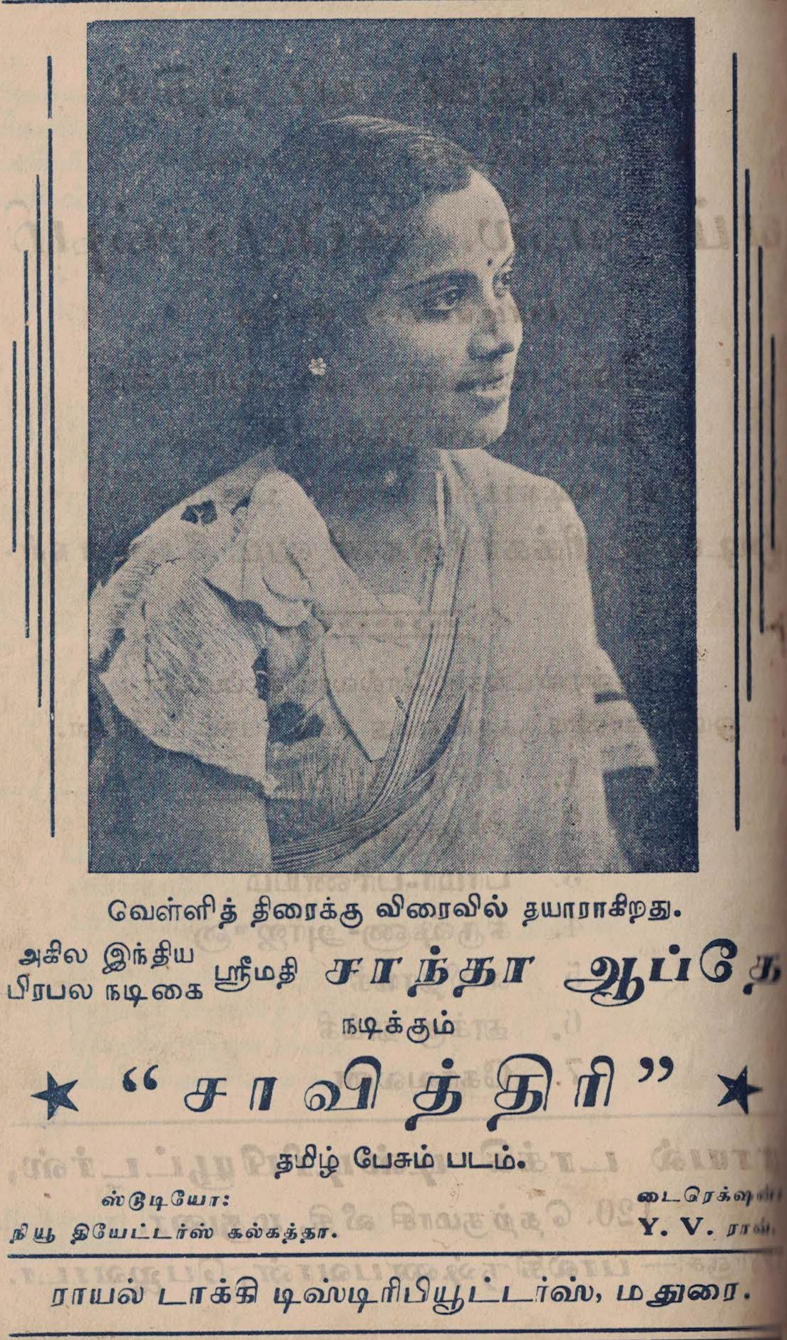 Poster for the 1941 South Indian Tamil film Savithri